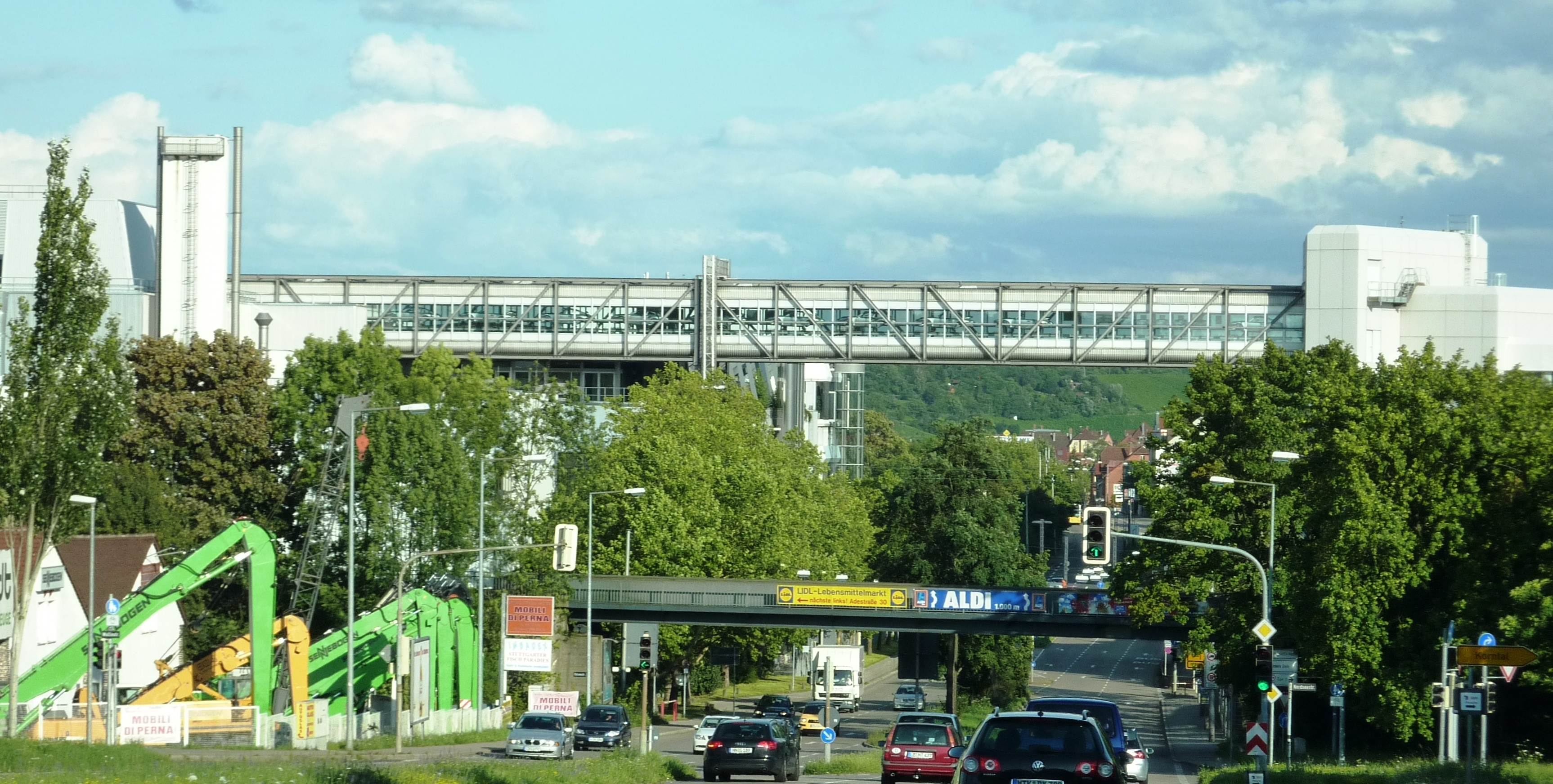 Brigde connecting 2 factories of Automaker Porsche in Stuttgart-Zuffenhausen